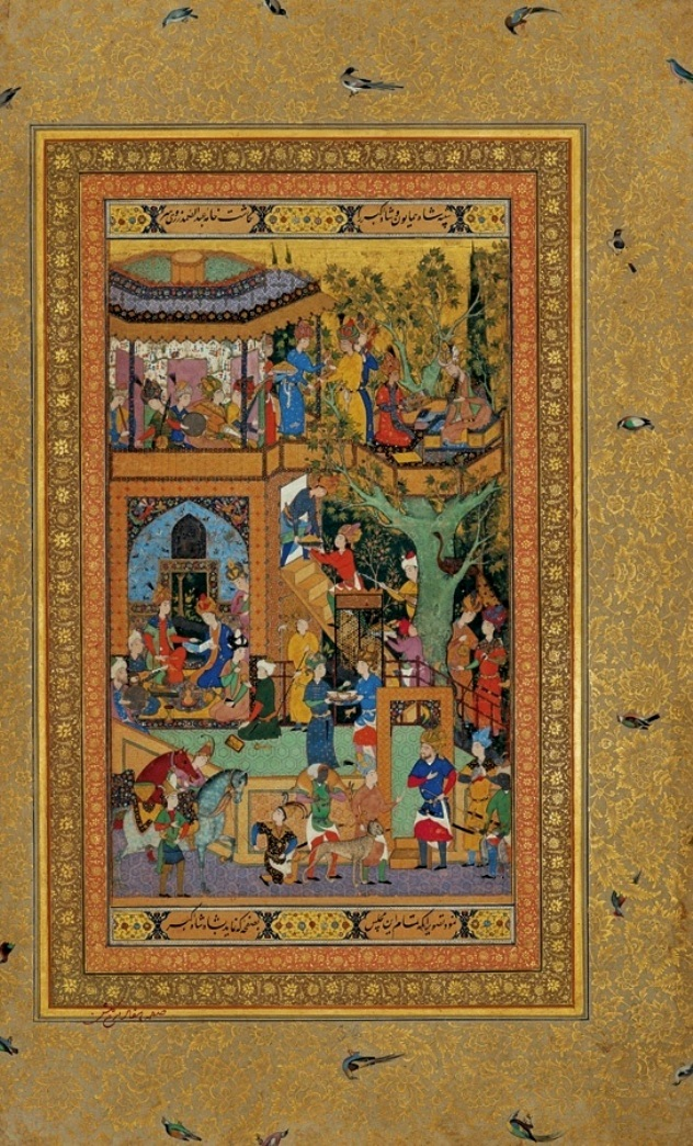 ‘Abd al-Samad. Akbar Presents a Painting to His Father Humayun. Mughal, probably Kabul, c. 1550–1556. Golestan Palace Library, Tehran